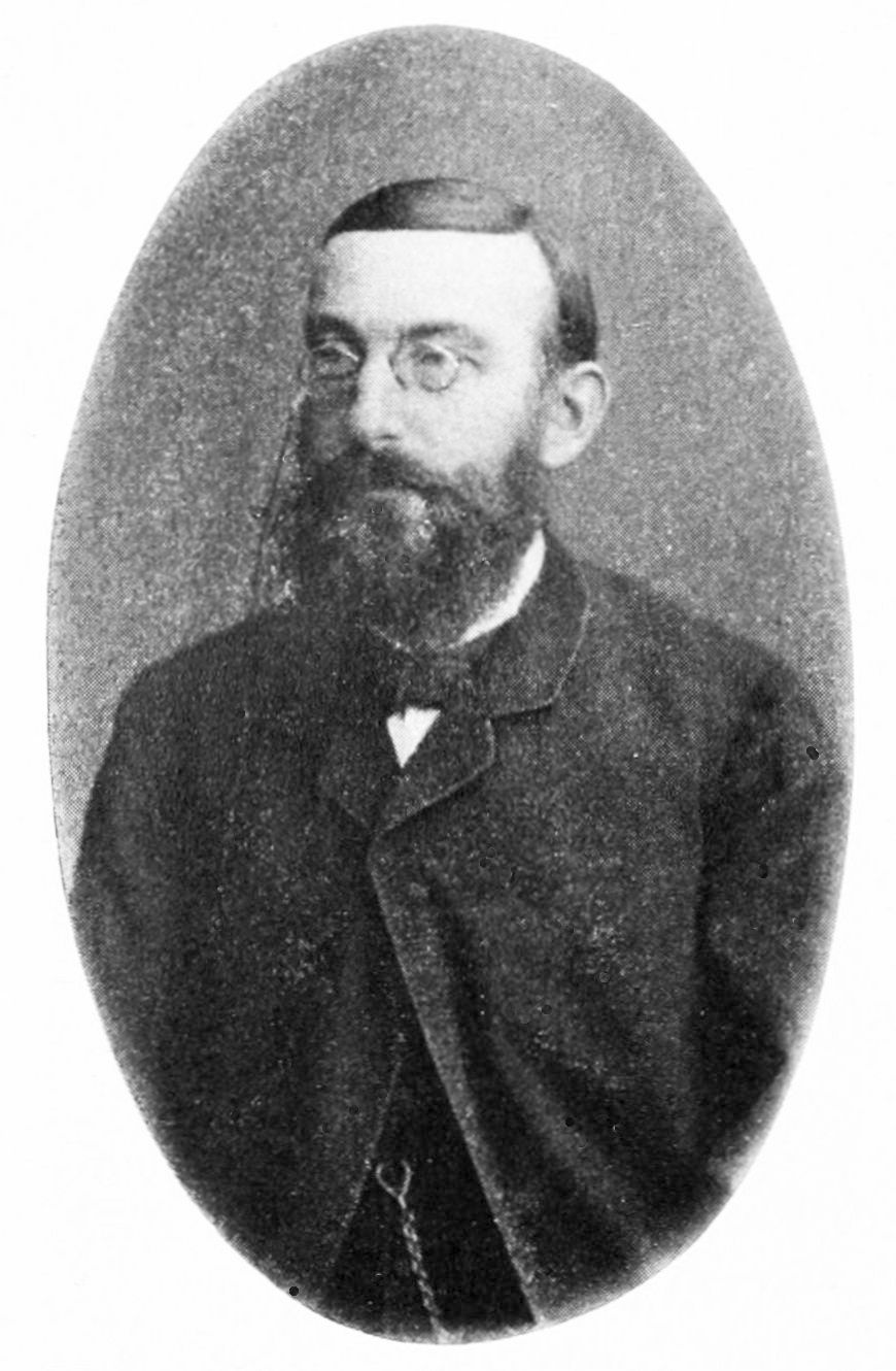 Wilhem Pfeffer professor of botany from Tubingen